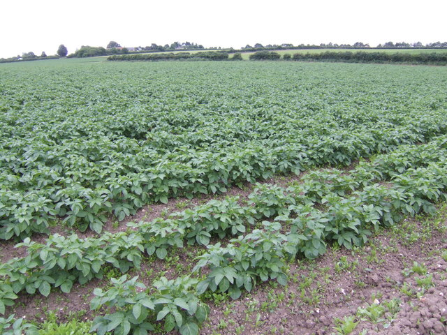 Potato crop Fields east of Marham Road, Fincham.